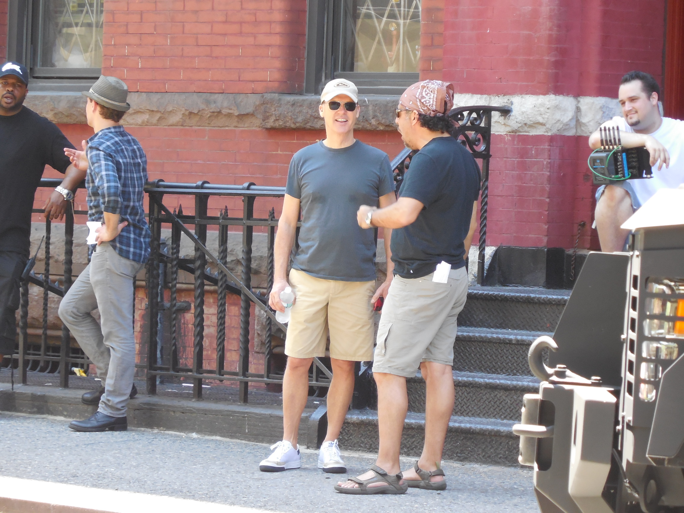 Michael Keaton, Alejandro G. Iñárritu et al. during rehearsal of the action sequence of Birdman in 43rd St, Manhattan